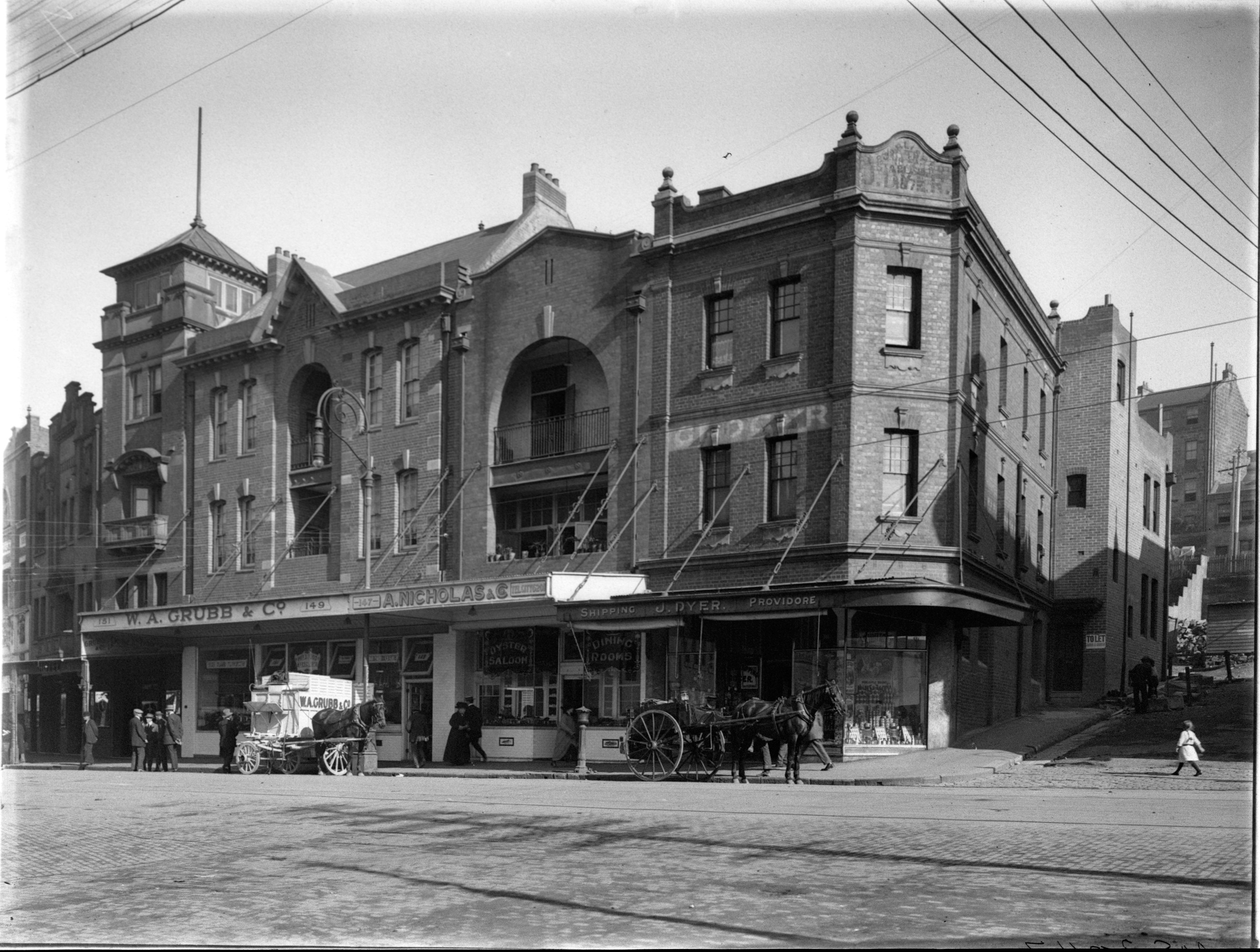 Call Number: Government Printing Office 1 - 32247 Format: Dry plate Find more detailed information about this photograph: Search for more great images in the State Library's collections: .au/search/SimpleSearch.aspx From the collection of the State Library of New South Wales